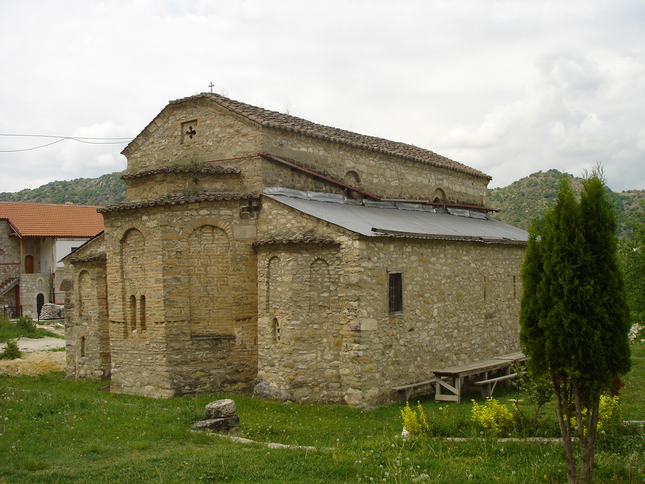 Monastery of St.Nicolas in Mariovo, Macedonia